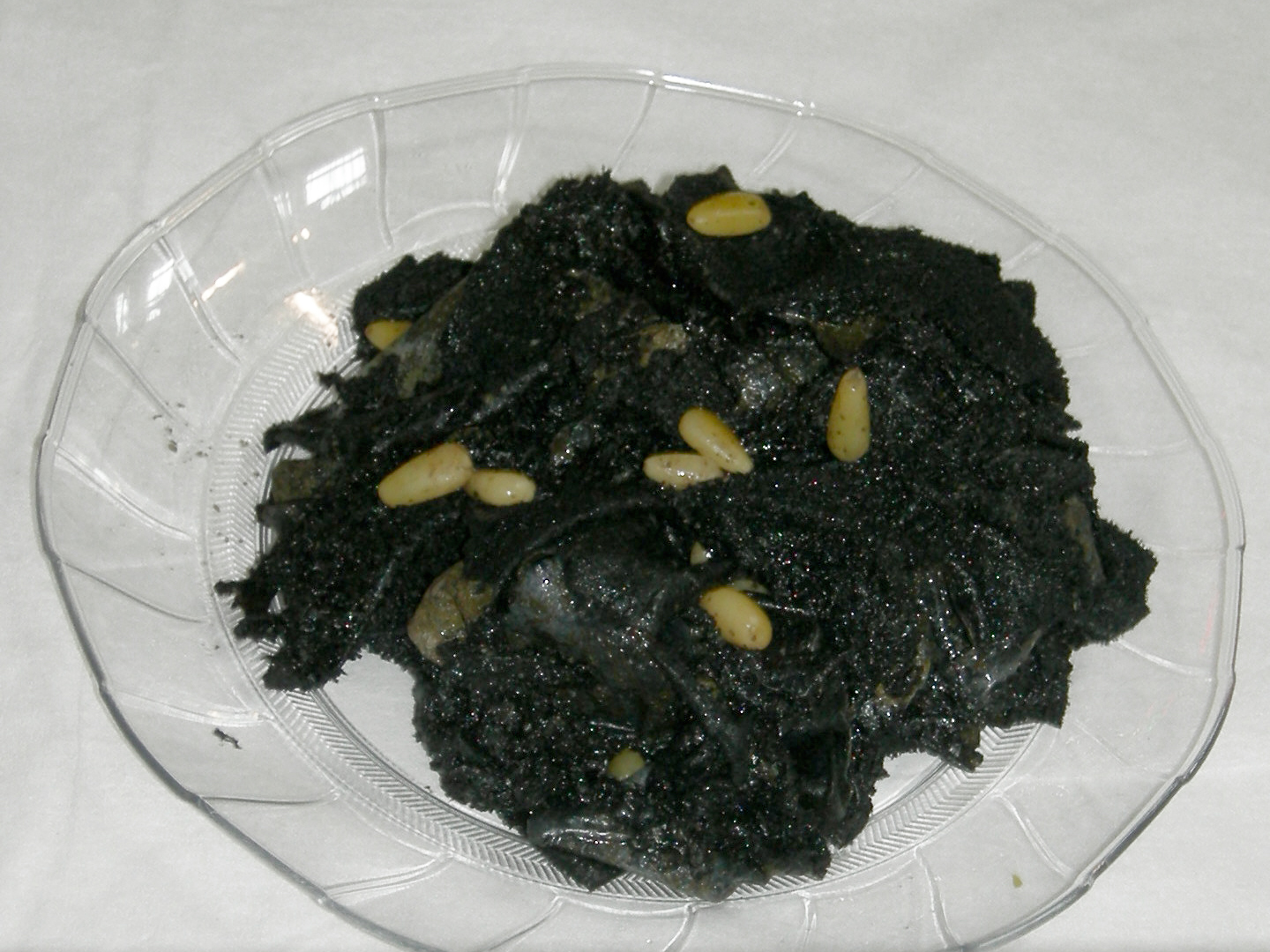 Korean vegetarian pan-fried mushroom dish (garnished with pine nuts), at Korean Cultural Celebration, part of the Festál series of ethnic events at Seattle Center, Seattle, Washington, U.S. This seems to be seogi (석이버섯; manna lichen), known by the scientific names Umbilicaria esculenta and Gyrophora esculenta.